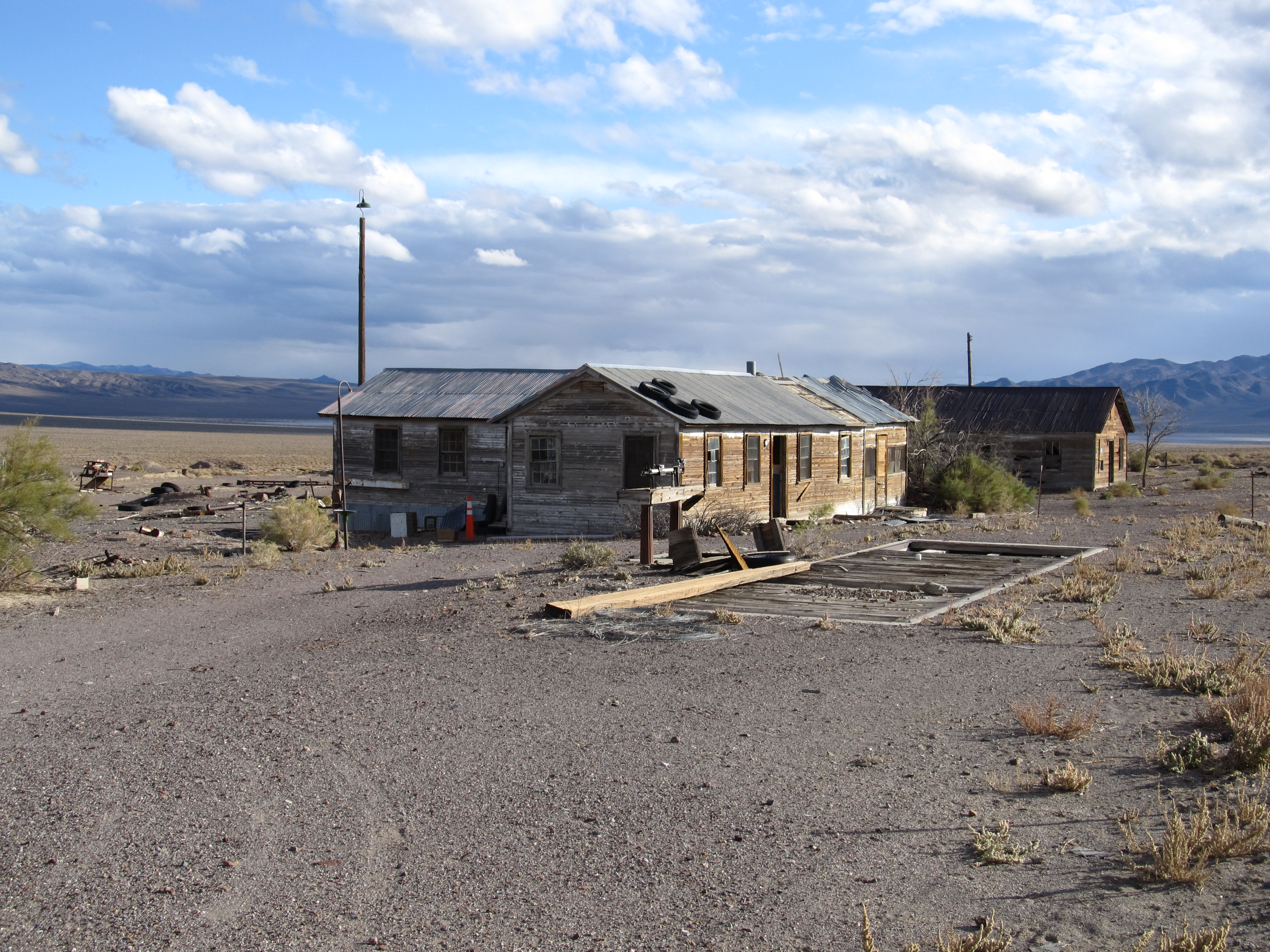 Abandoned buildings in Sodaville ghost town. 4 miles south of Mina, Mineral County, Nevada.